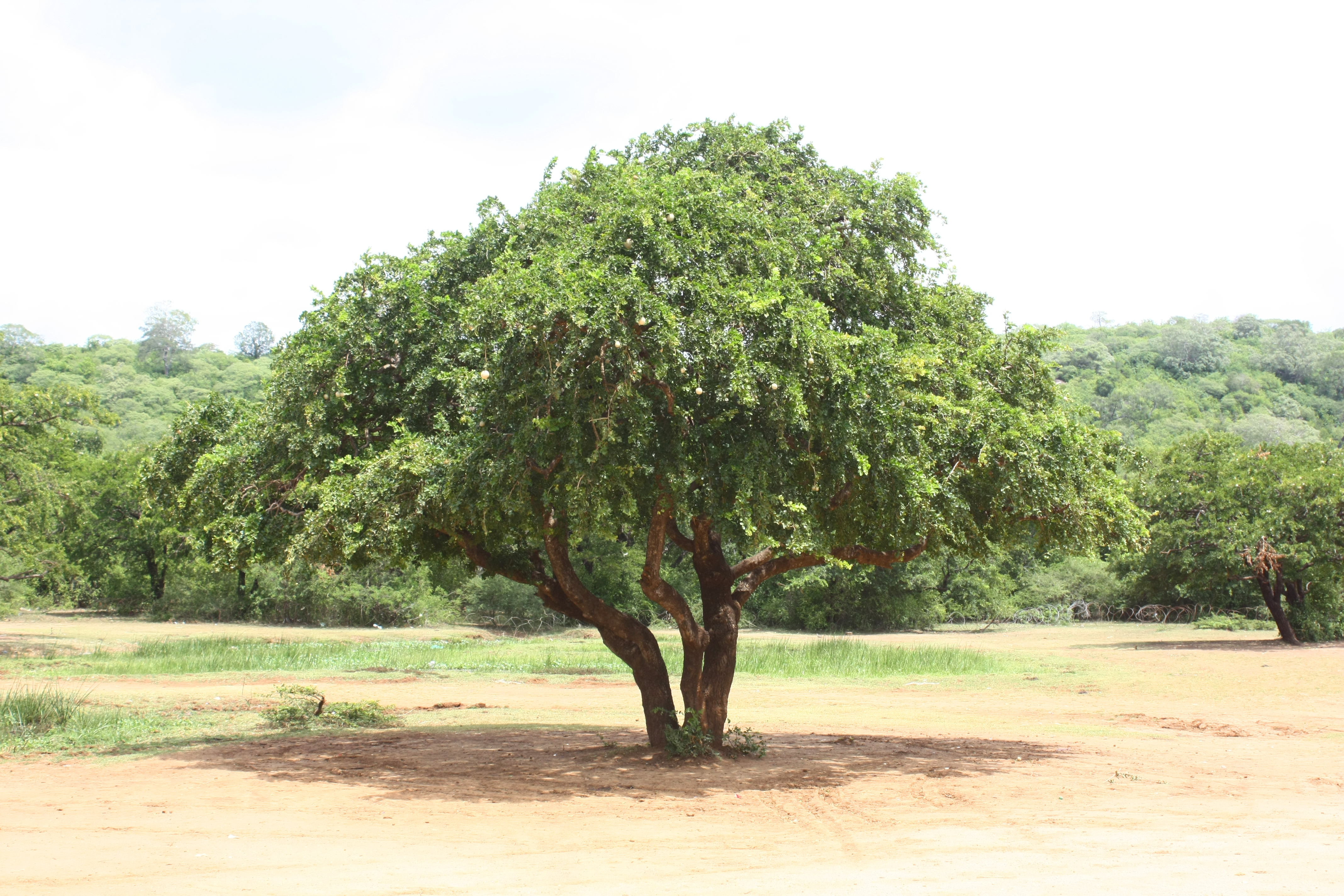 Wood-apple tree in Trincomalee, Sri Lanka